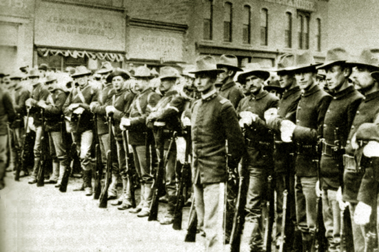 Federal Troops on South Front Street, Rock Springs, 1885. National Archives Photo.